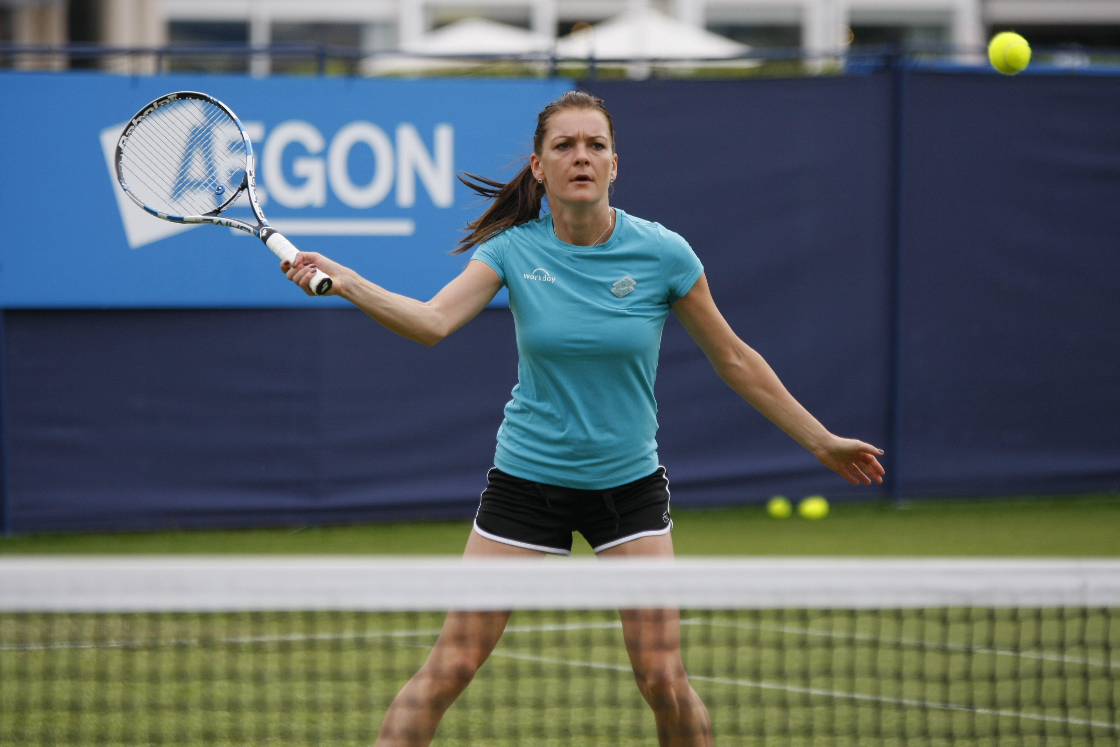 Aegon International Tennis, Devonshire Park, Eastbourne June 2015